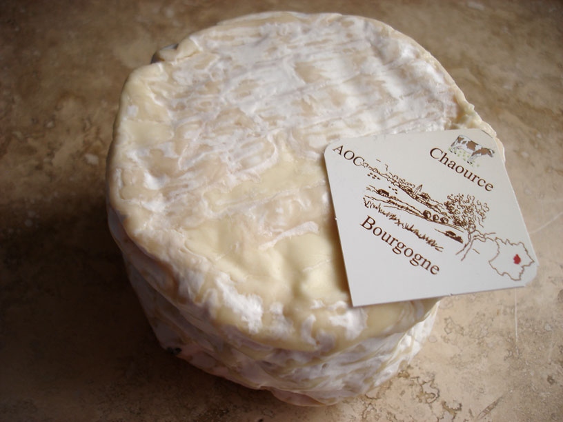 author/source: jcrimbaud